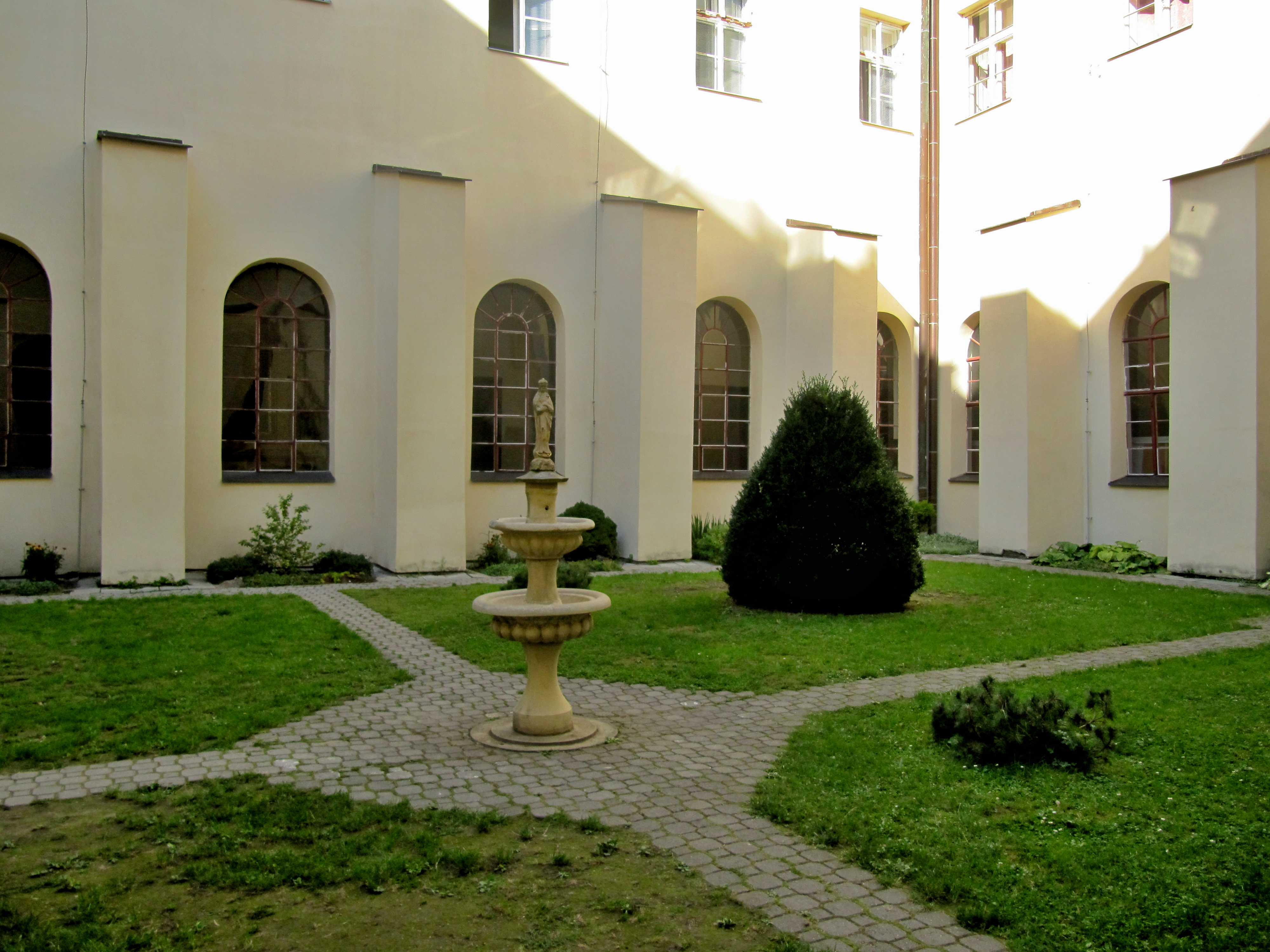 Olomouc, Czech Republic. Žerotínovo náměstí square 220/1 St Michael's Church and Dominican Convent.